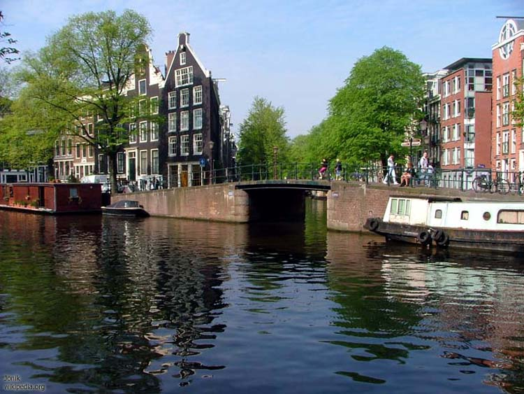 Canals of Amsterdam - the corner of Prinsengracht and Bloemgracht, in the Jordaan area. Taken by me, Jonik, April 2004.